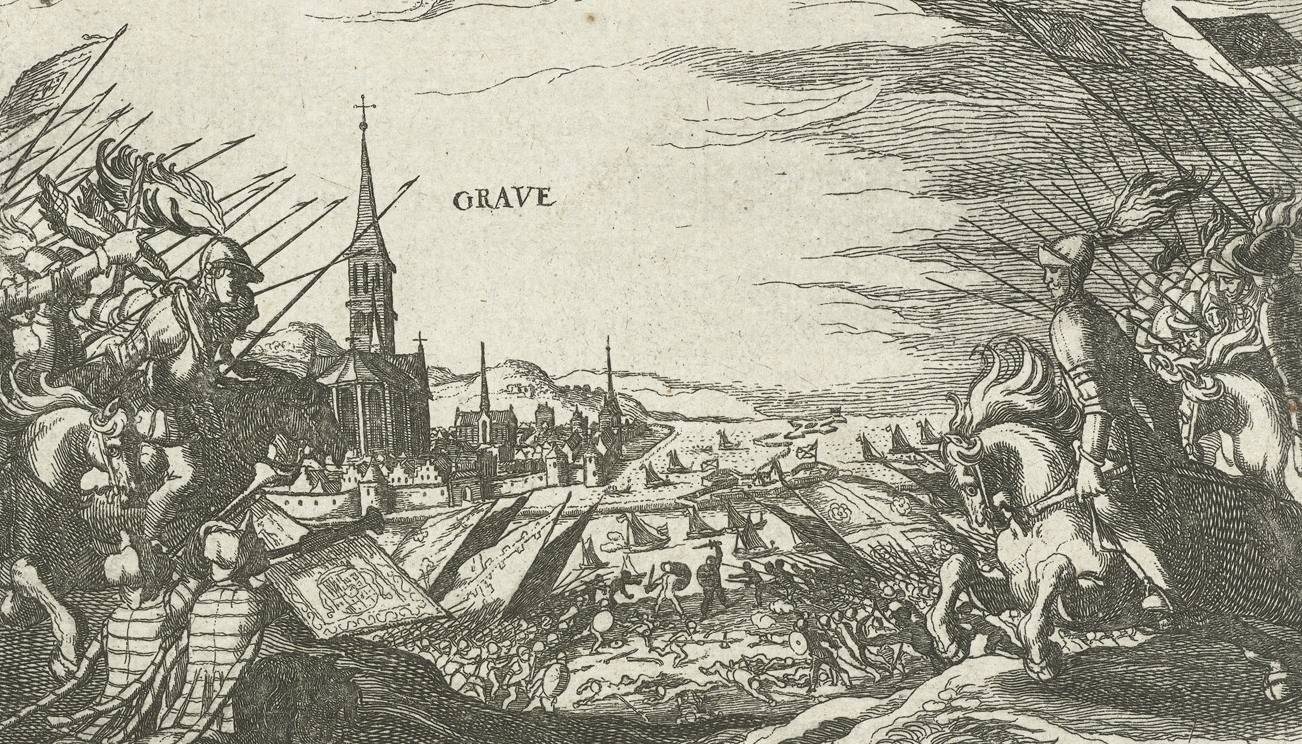 Siege of Grave by Parma, 1586